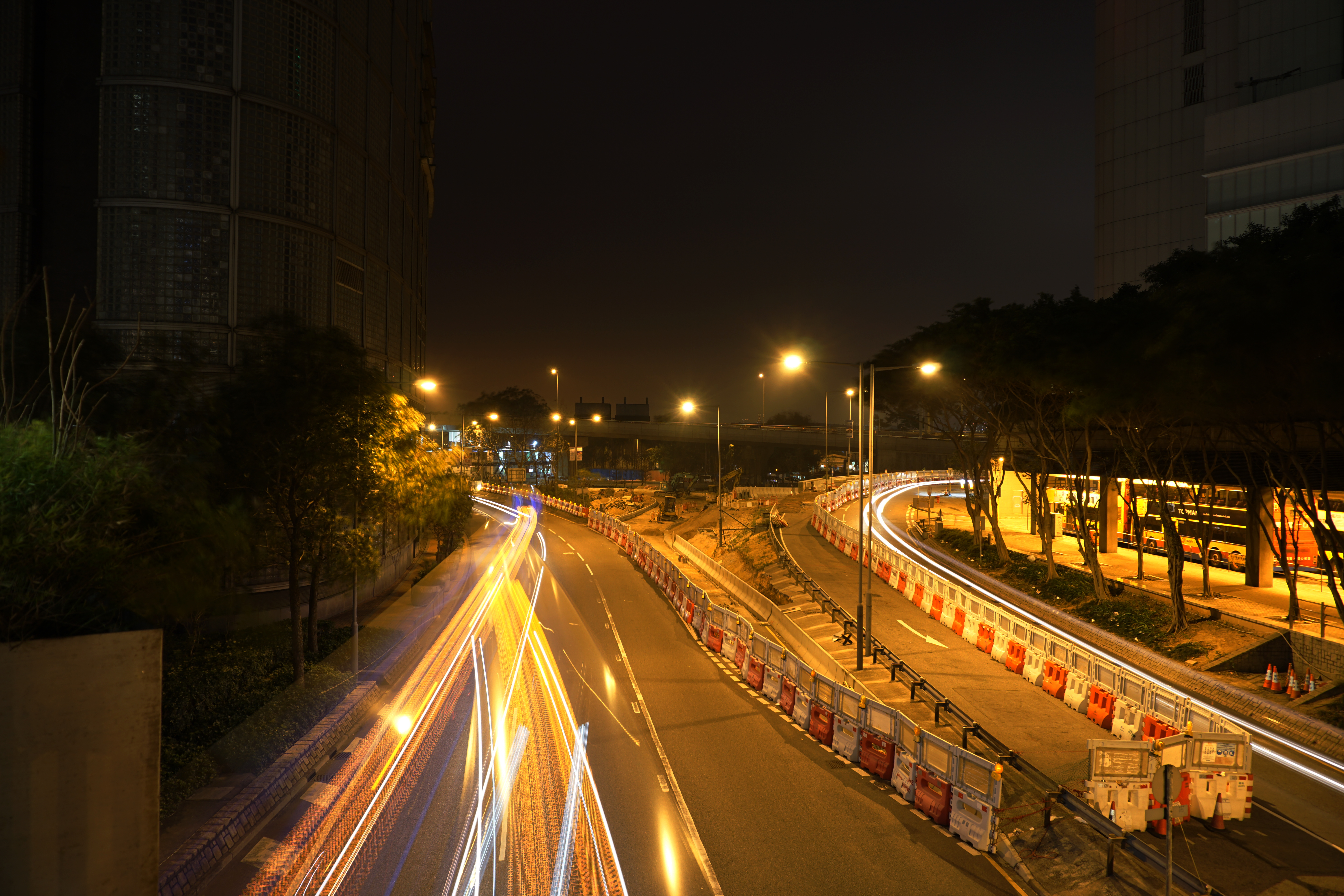 Man Kat Street in Central, Hong Kong.